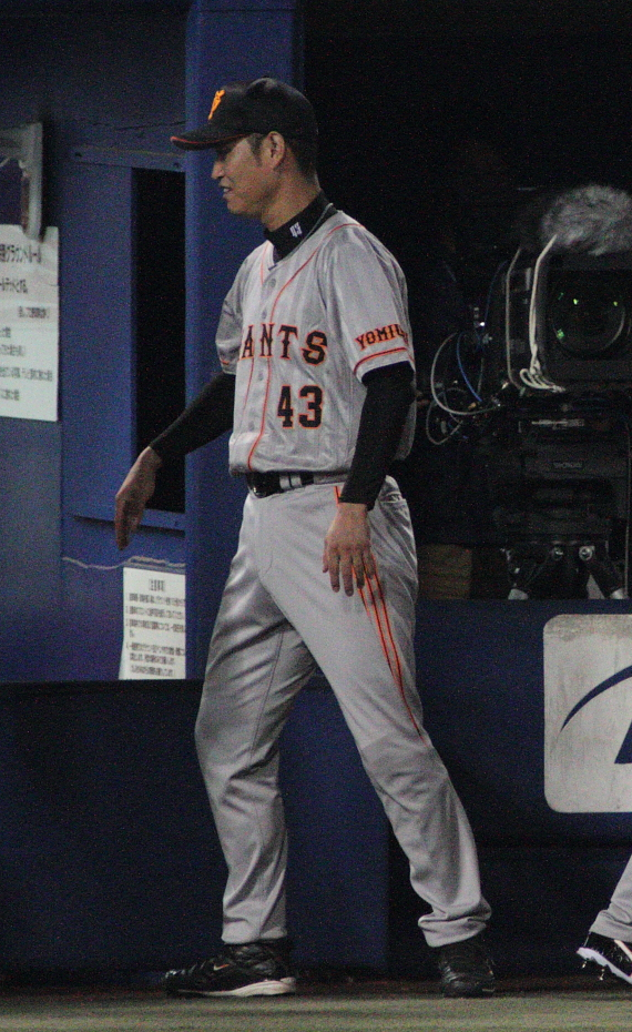 Kazunari Tsuruoka, catcher of the Yomiuri Giants, at Yokohama Stadium.